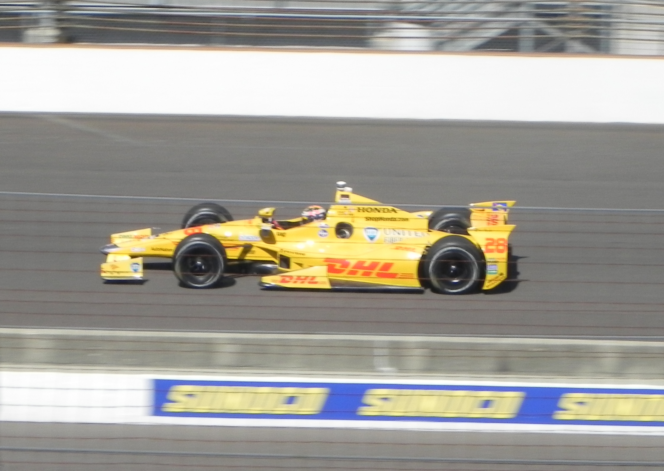 Ryan Hunter-Reay at the 2014 Indianapolis 500